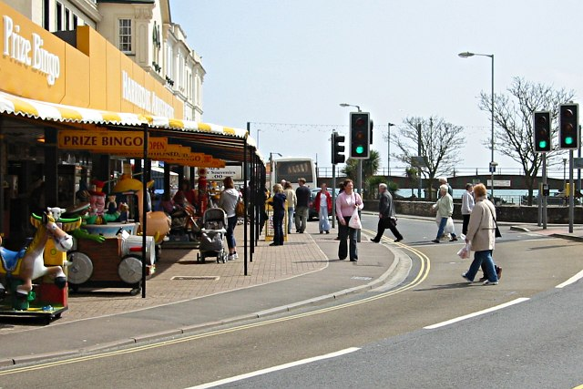 Prize Bingo - and Other Amusements